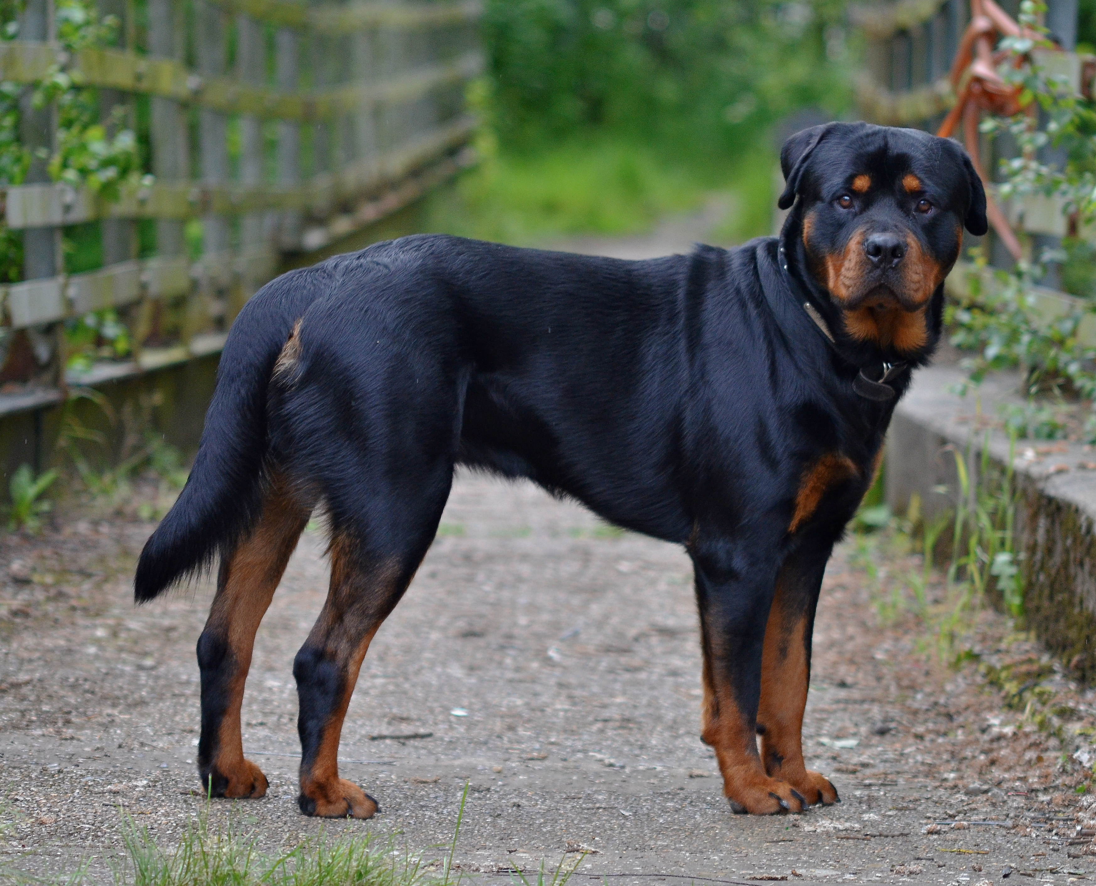 My mate Keith,s dog